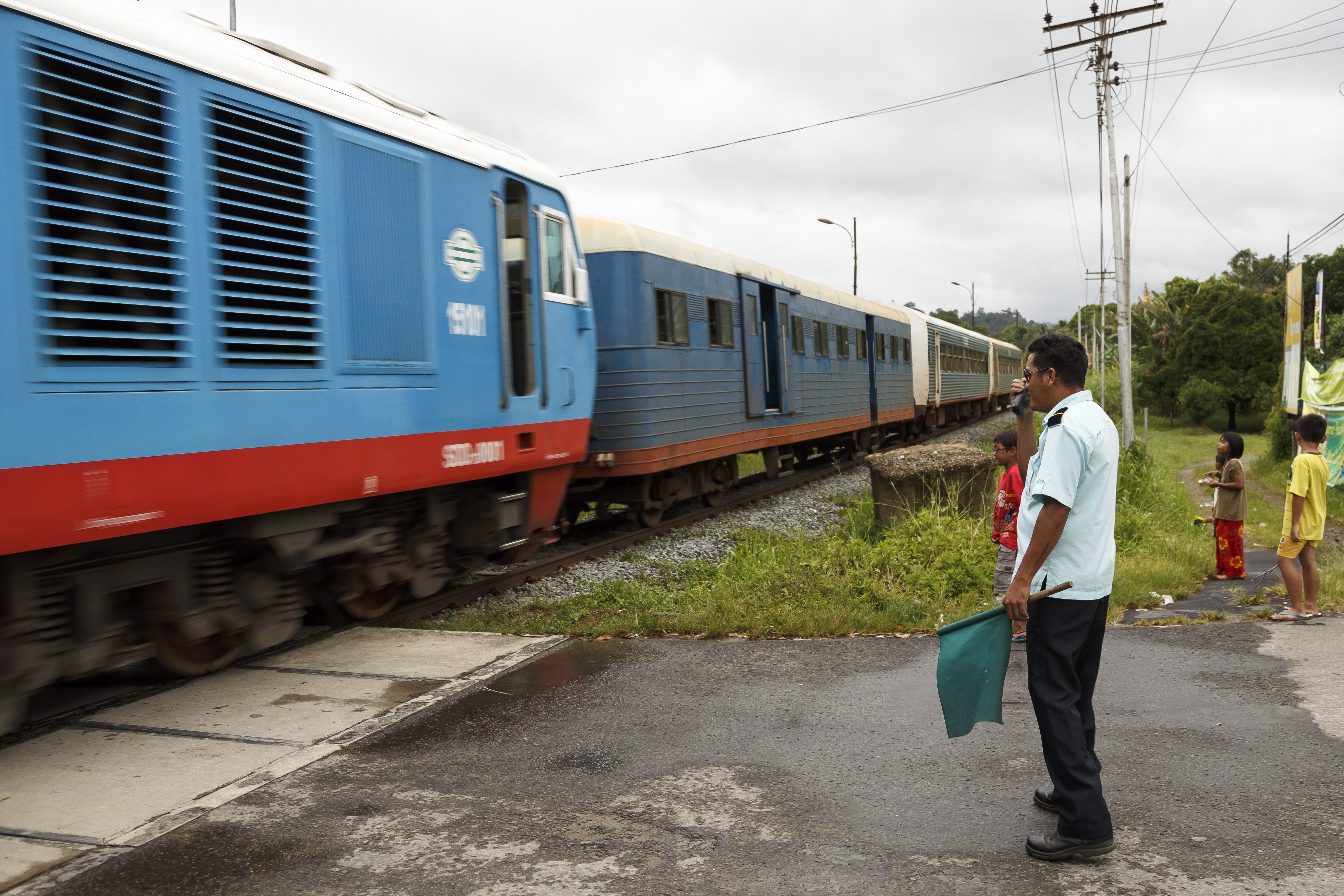 Beaufort, Sabah: Lineman watching the passing of Beaufort-Kota Kinabalu evening train at a railway crossing